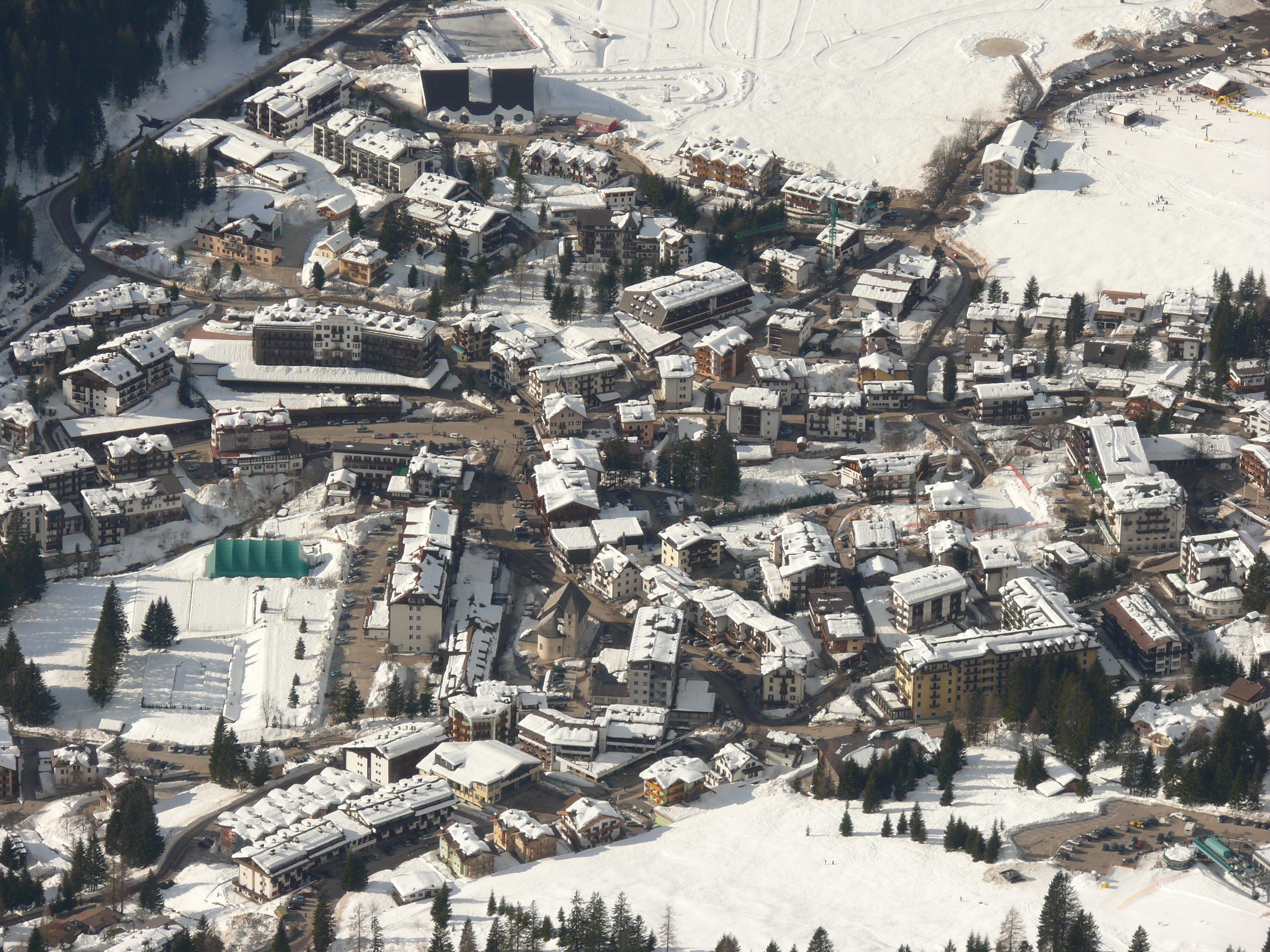 The village of San Martino di Castrozza, province of Trento, part of the municipalities of Siror and Tonadico.